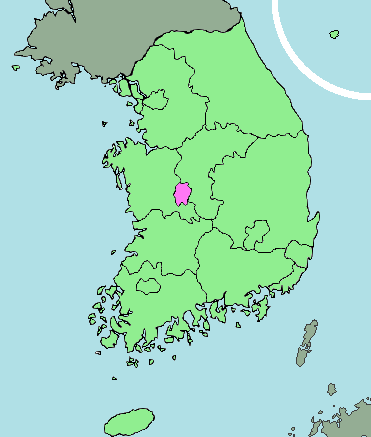 area map of Daejeon